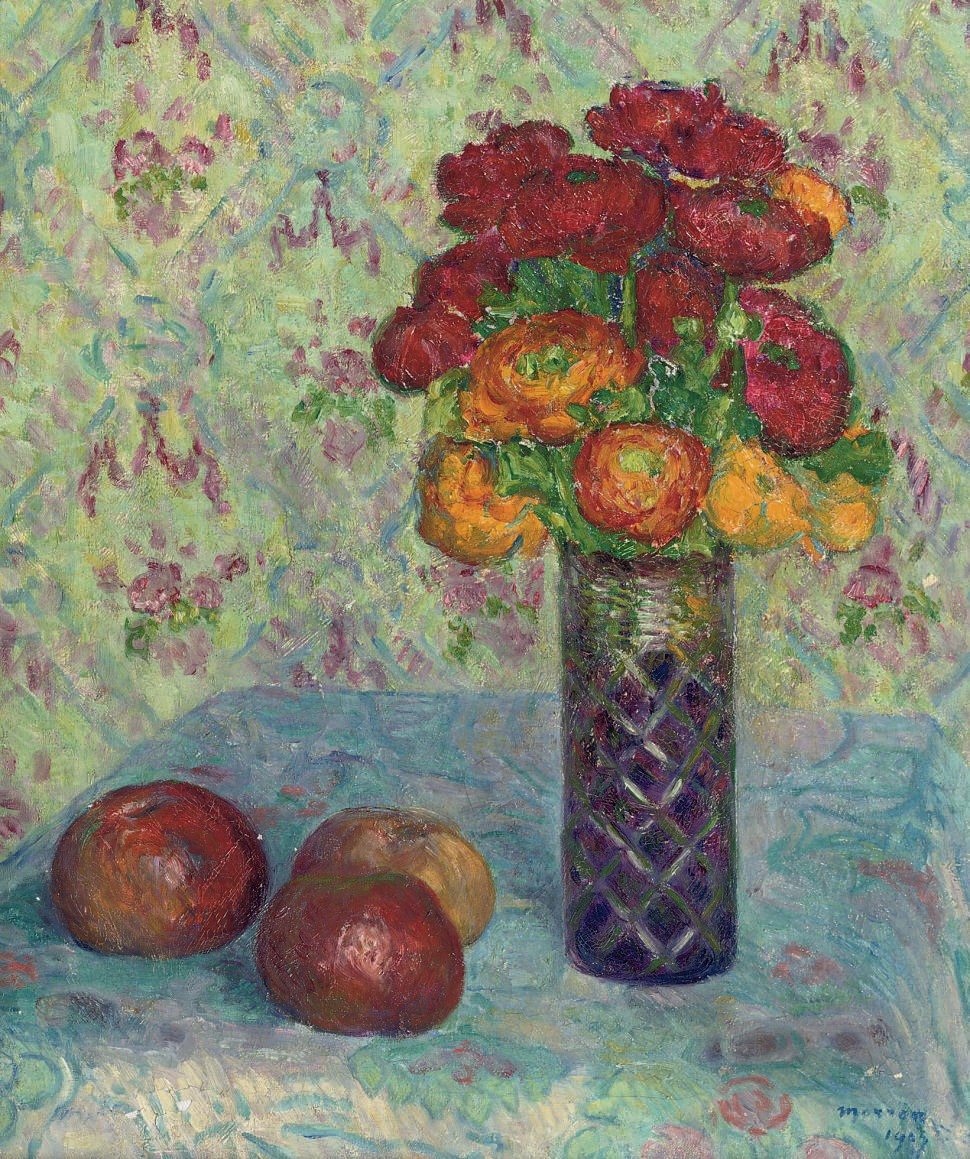 Renoncules (buttercups in a vase). Signed and dated Morren/1907. Oil on canvas, 45 x 37.5 cm